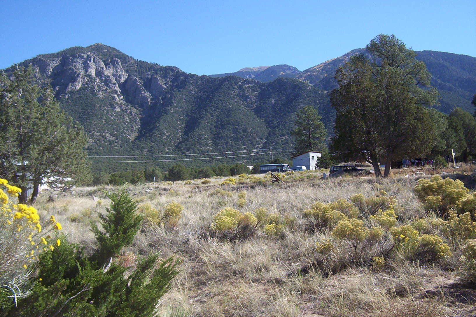 The Sangre de Cristo Range — from Silver and Cedar Streets in Crestone, Saguache County, southern Colorado. Baldy is at the head of Burnt Gulch.